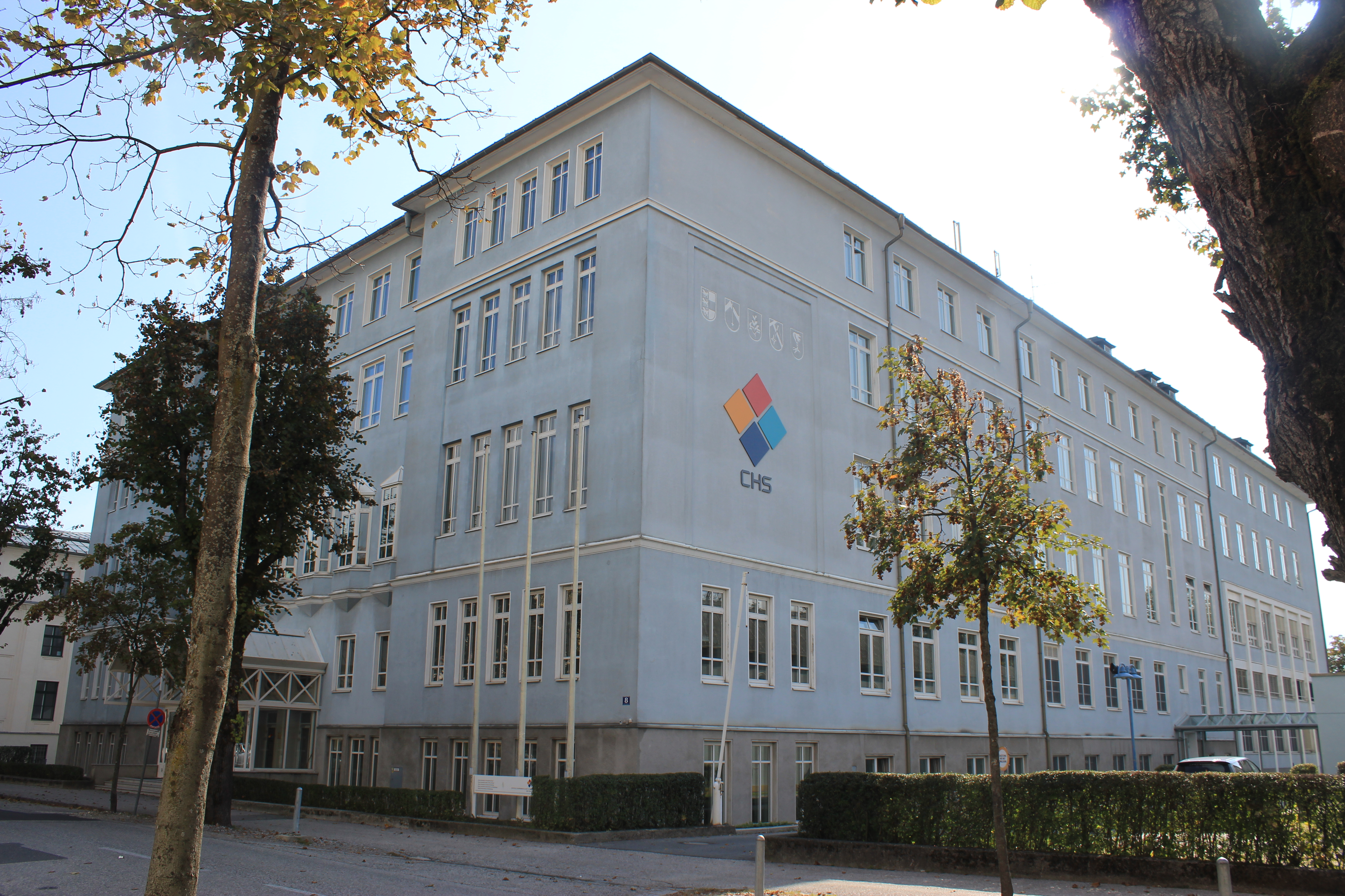 HBLA Villach1 in Villach